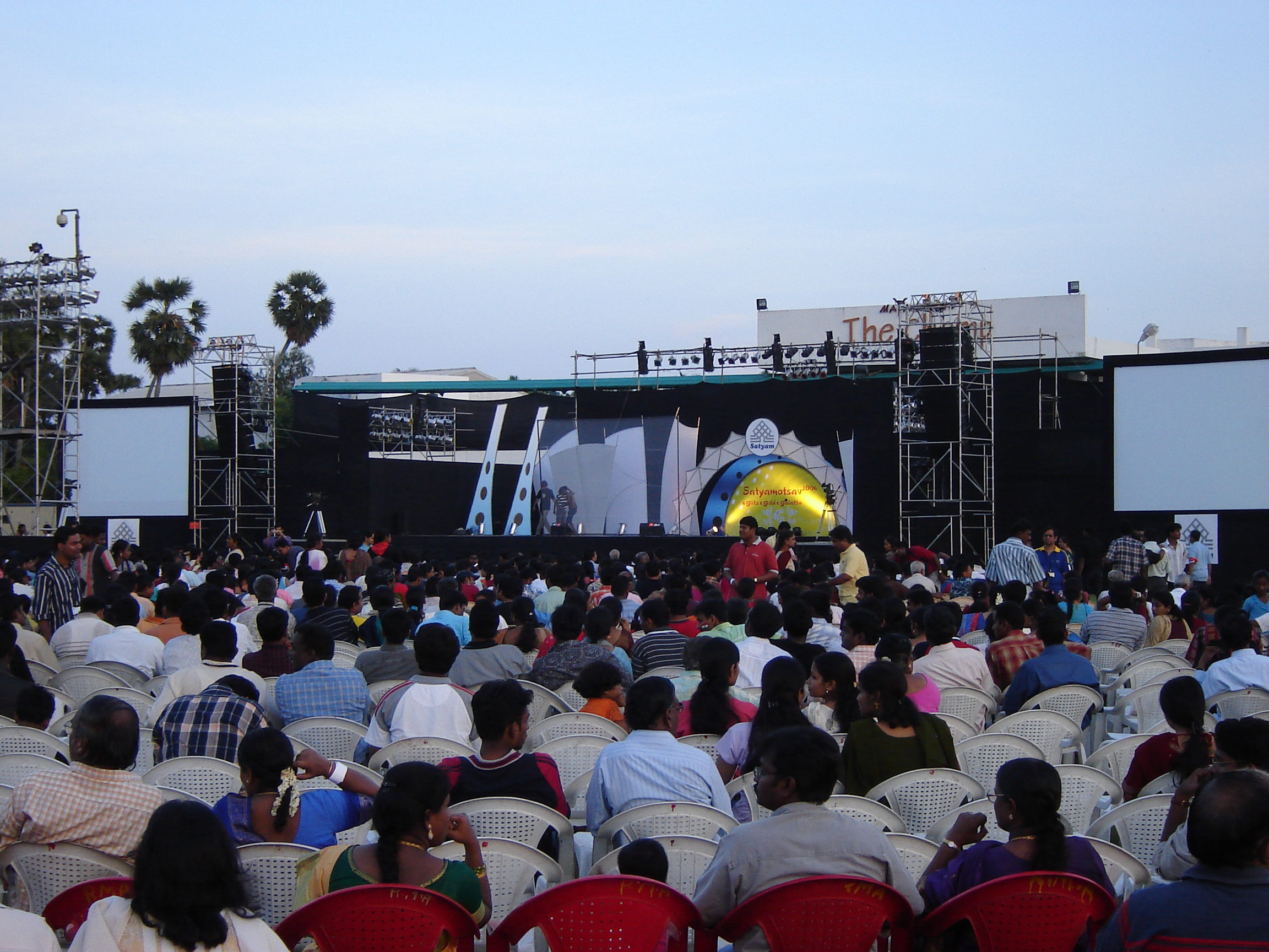 Pic of Satyam's Annual Day Celebrations held in 2006 at chennai,India. Author : Ranjit Nair. Pic taken by Self